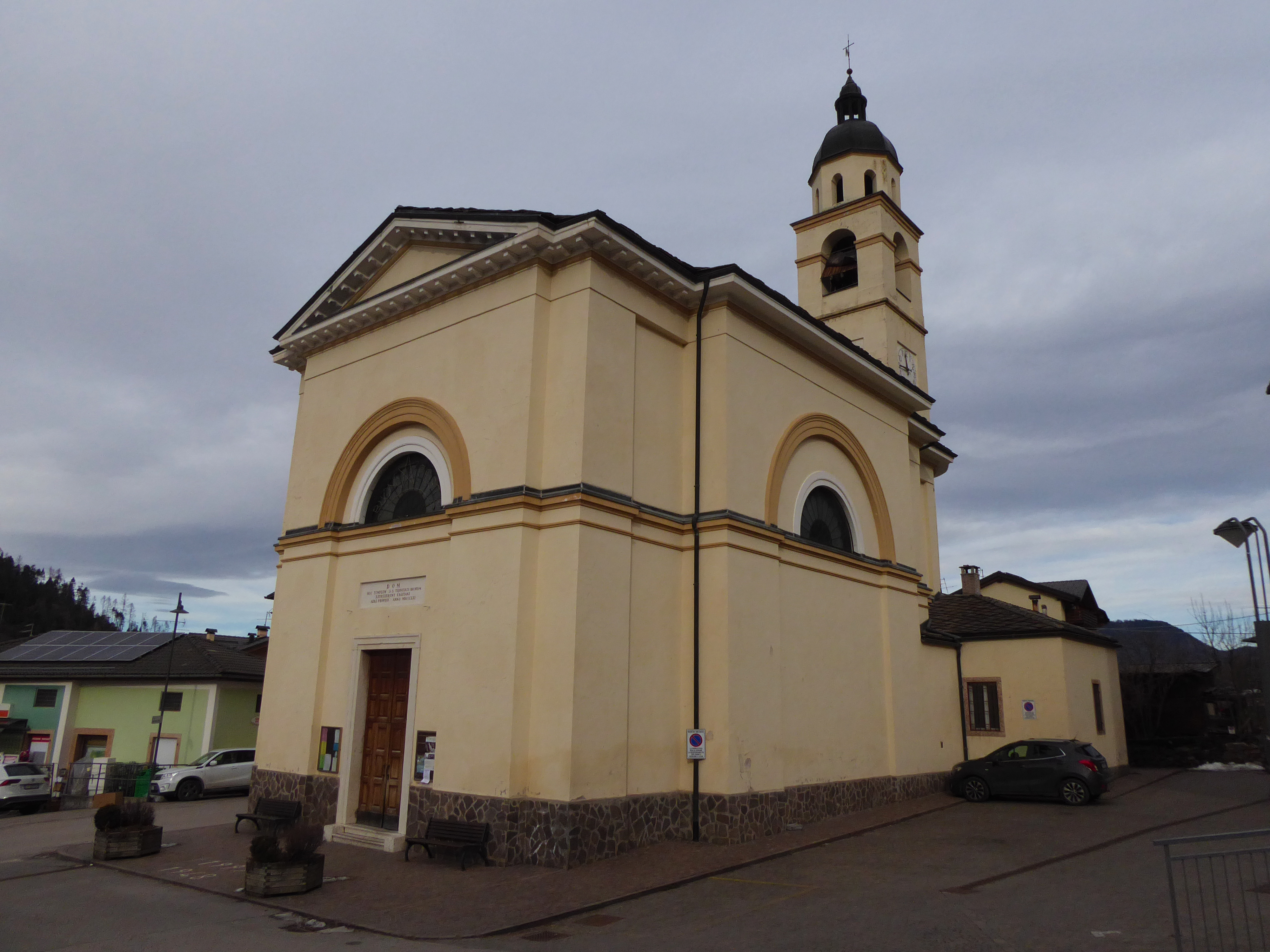 Faida (Baselga di Piné, Trentino, Italy) - Holy Trinity church